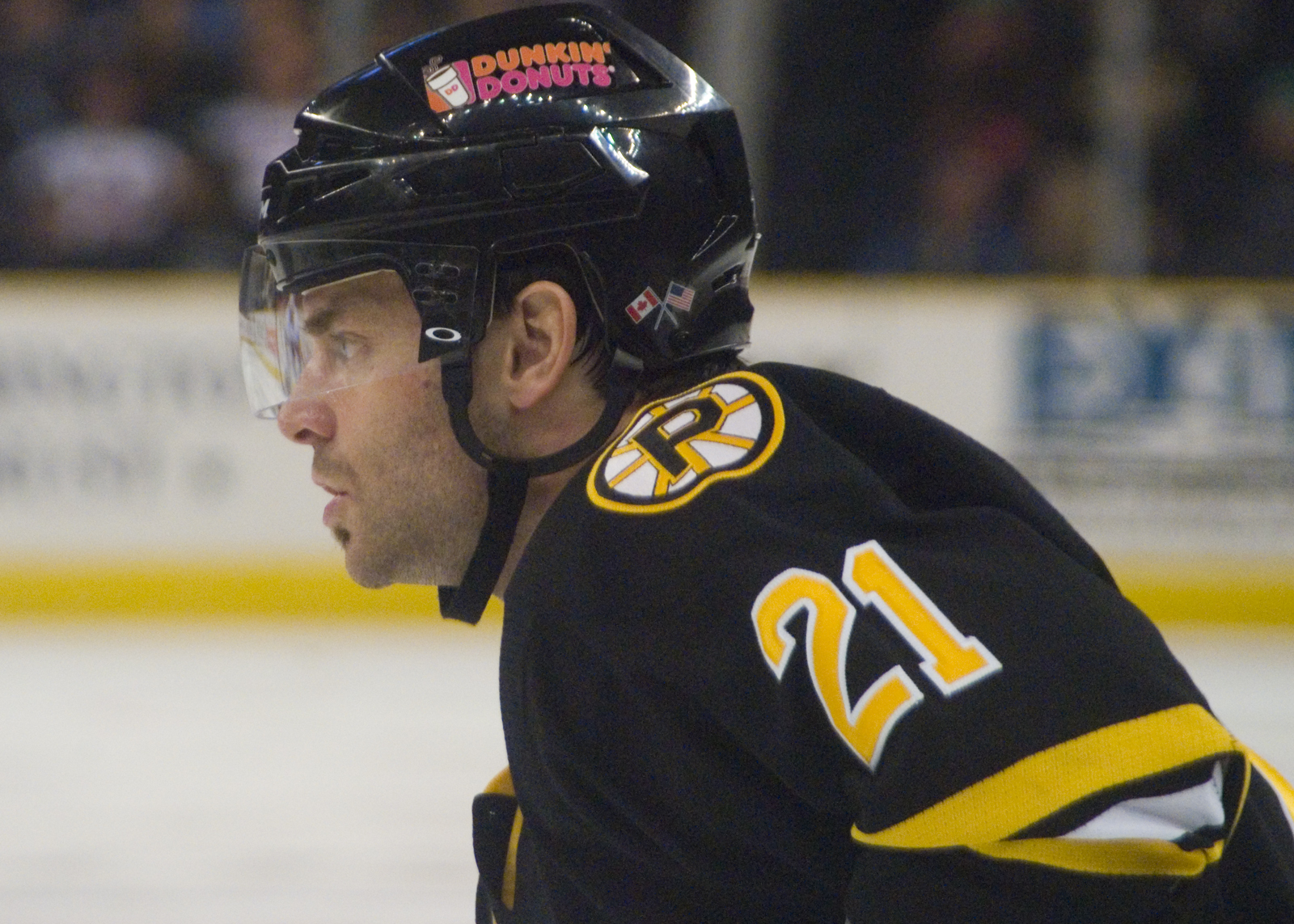 ERI_5537 Providence Bruins vs. Bridgeport Sound Tigers. American Hockey League (AHL) Taken by Sarah Connors on March 11, 2011 P-Bruins won in a shootout, 4-3. This photo also appears in Sarah Connors' Flickr Set "Providence vs. Bridgeport 3/12/11" (Set: 96)